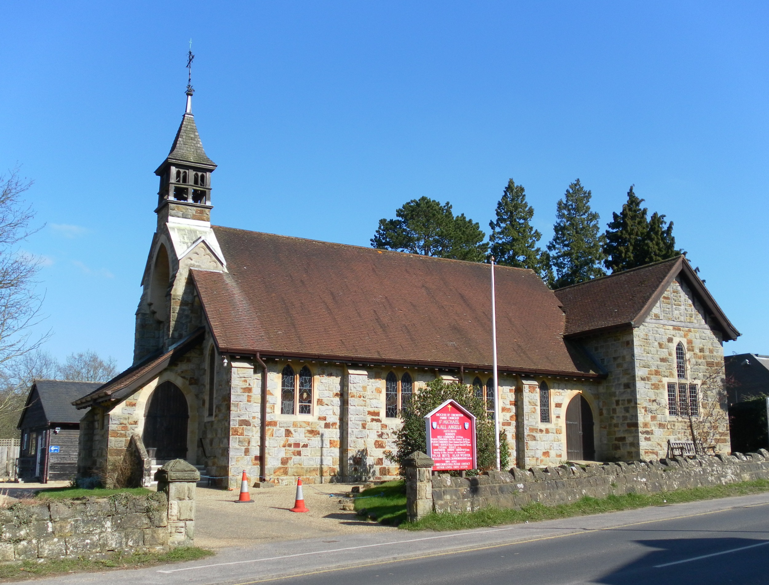 Church of St Michaels and All Angels, Crowborough Hill, Jarvis Brook, East Sussex, seen from the southwest